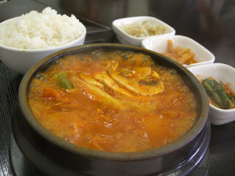 Kimchi jjigae, a Korean stew made with kimchi, sliced pork and vegetables.